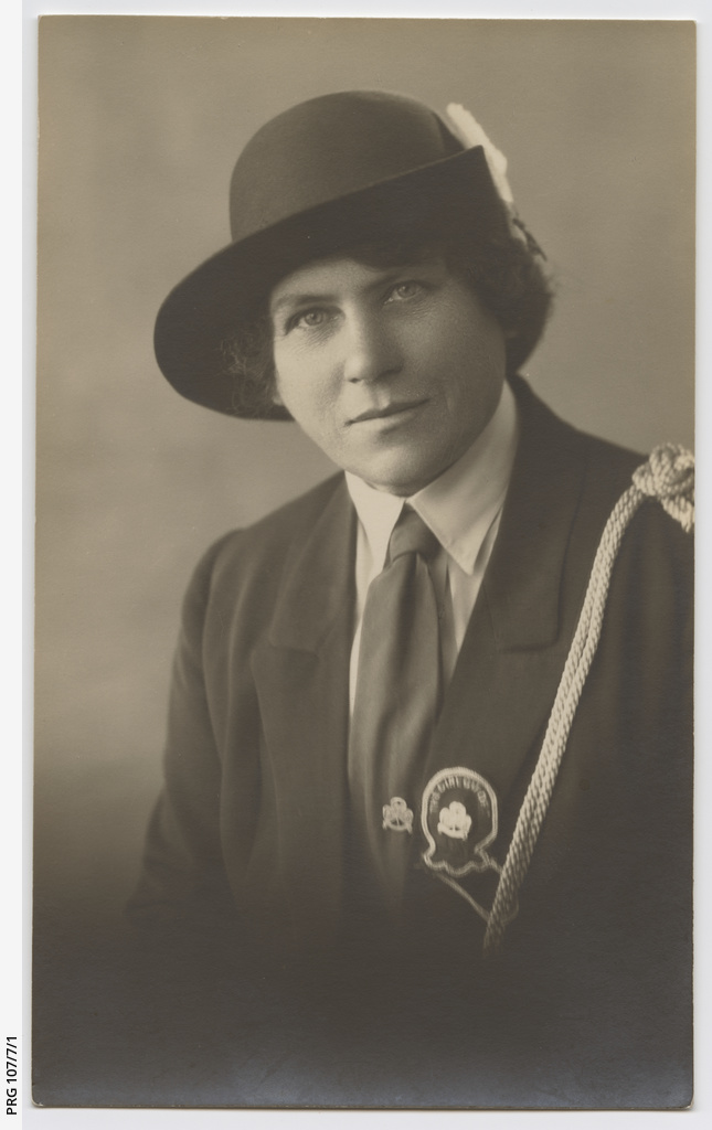 Adelaide Laetitia Miethke, (1881-1962) educator and second president of the National Council of Women of Australia